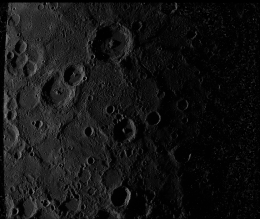 Image Number: 0027357GMT: 1974:088:19:00:50Start Time: 1974-03-29T19:00:50.343ZLatitude: -6.29° to 6°Longitude: 5.85° to 20.43°Resolution (meters per pixel): 580Incidence Angle: 86.35°Emission Angle: 27.26°Phase Angle: 102.63°